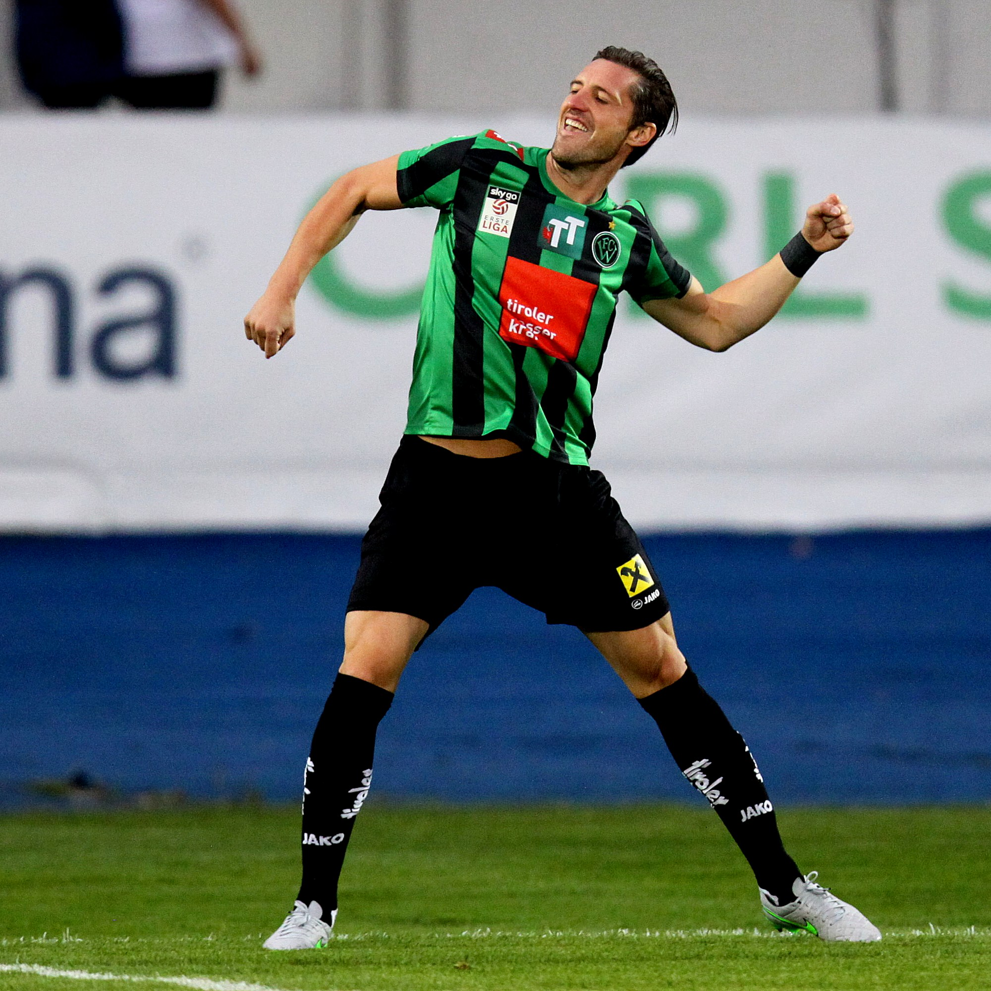 Match of the Erste Liga – SC Wiener Neustadt (blue/white shirts) vs. FC Wacker Innsbruck (green/black shirts) 1–2 (0–1) on 2015-09-15 in the Stadion in Wiener Neustadt – The photo shows Thomas Pichlmann (FC Wacker Innsbruck) is jubilant after his goal for 0-1.